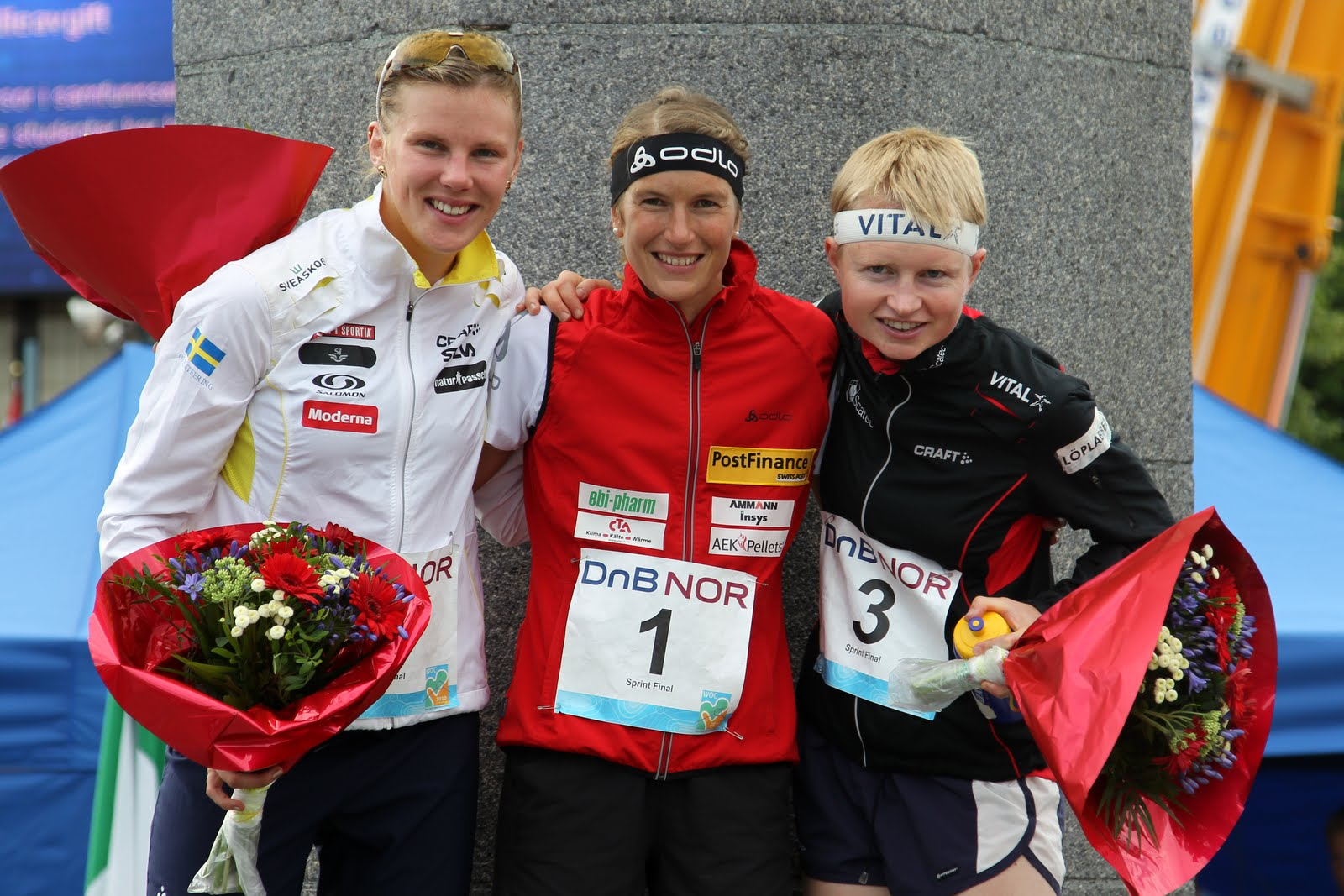 Helena Jansson, Simone Niggli-Luder and Marianne Andersen at World Orienteering Championships 2010 in Trondheim, Norway